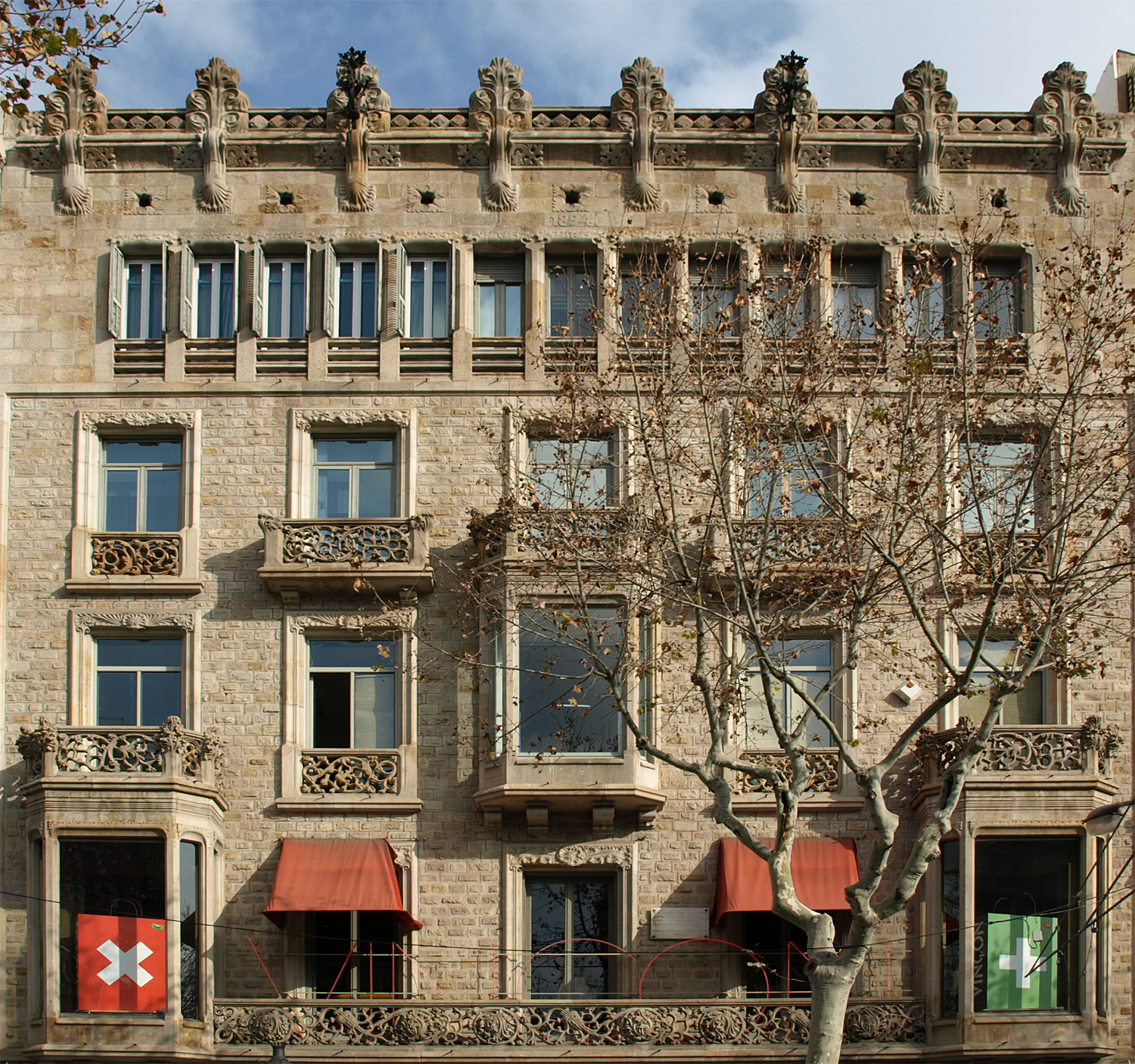 Casa Ramon Casas - Catalan Modernisme (1898, Antoni Rovira i Rabassa)